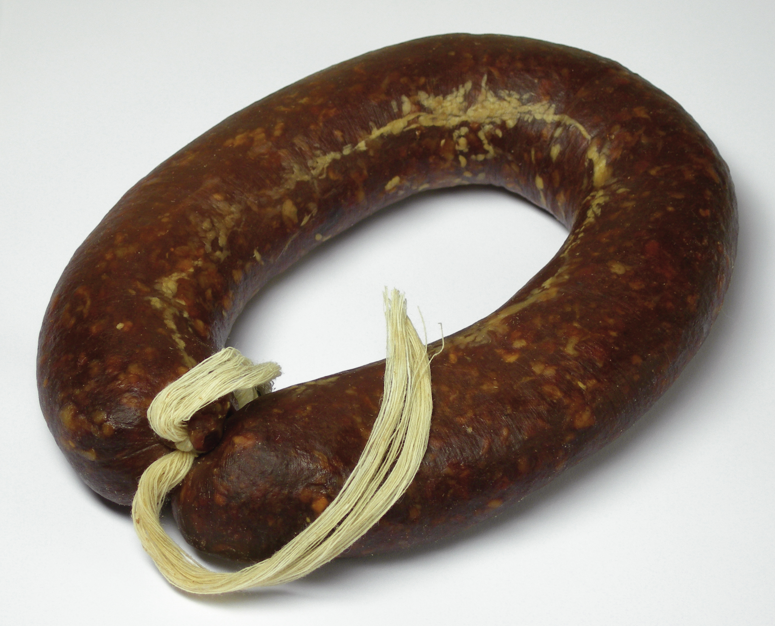 Turkish „sucuk“ (handmade), made of beef and lambmeat, minced with garlic, cumin and chili. Own photo.